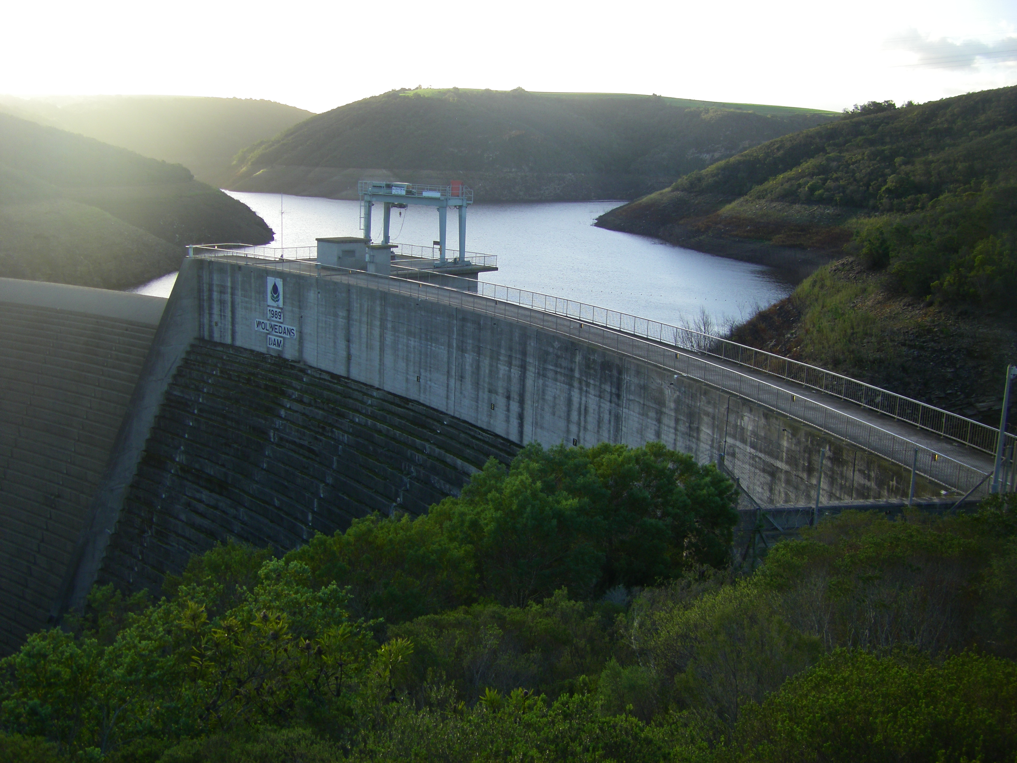 1989 Wolwedans Dam, Groot Brak river, view from the south east.